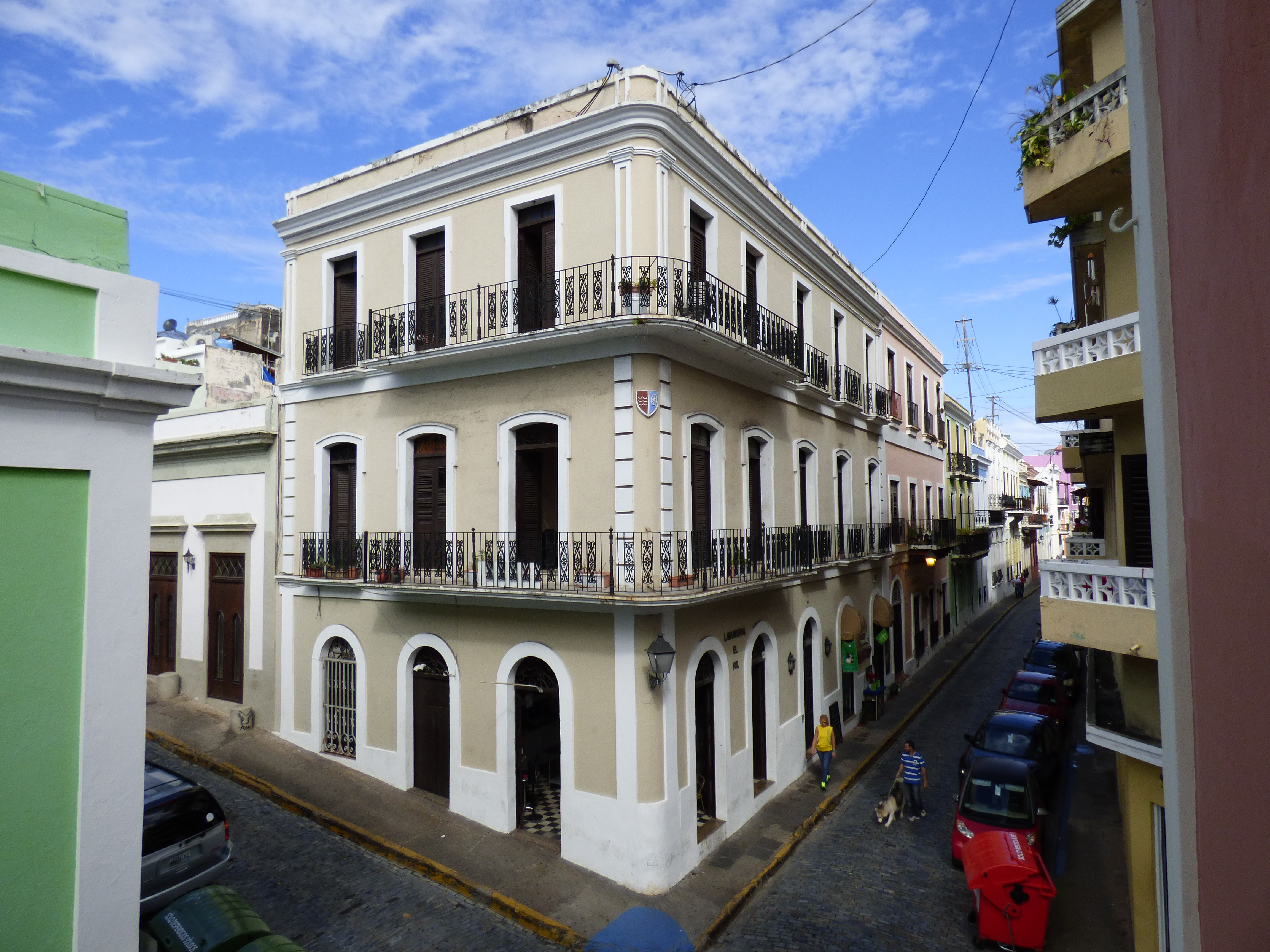 An example of the Spanish Colonial architecture in Old San Juan, Puerto Rico.